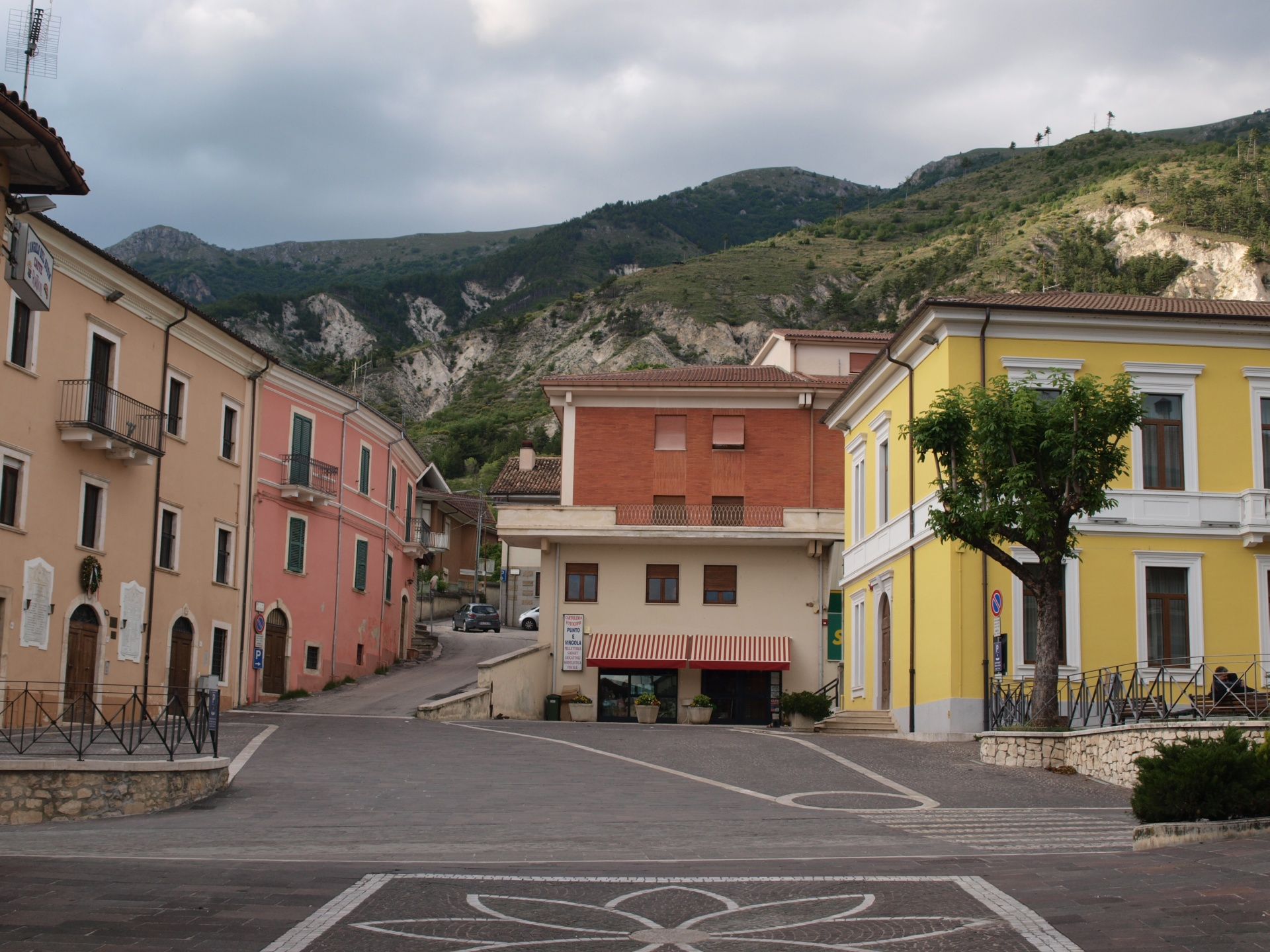 Piazza Munizipio town square in town Pizzoli (province L'Aquila, Abruzzo region, Italy)